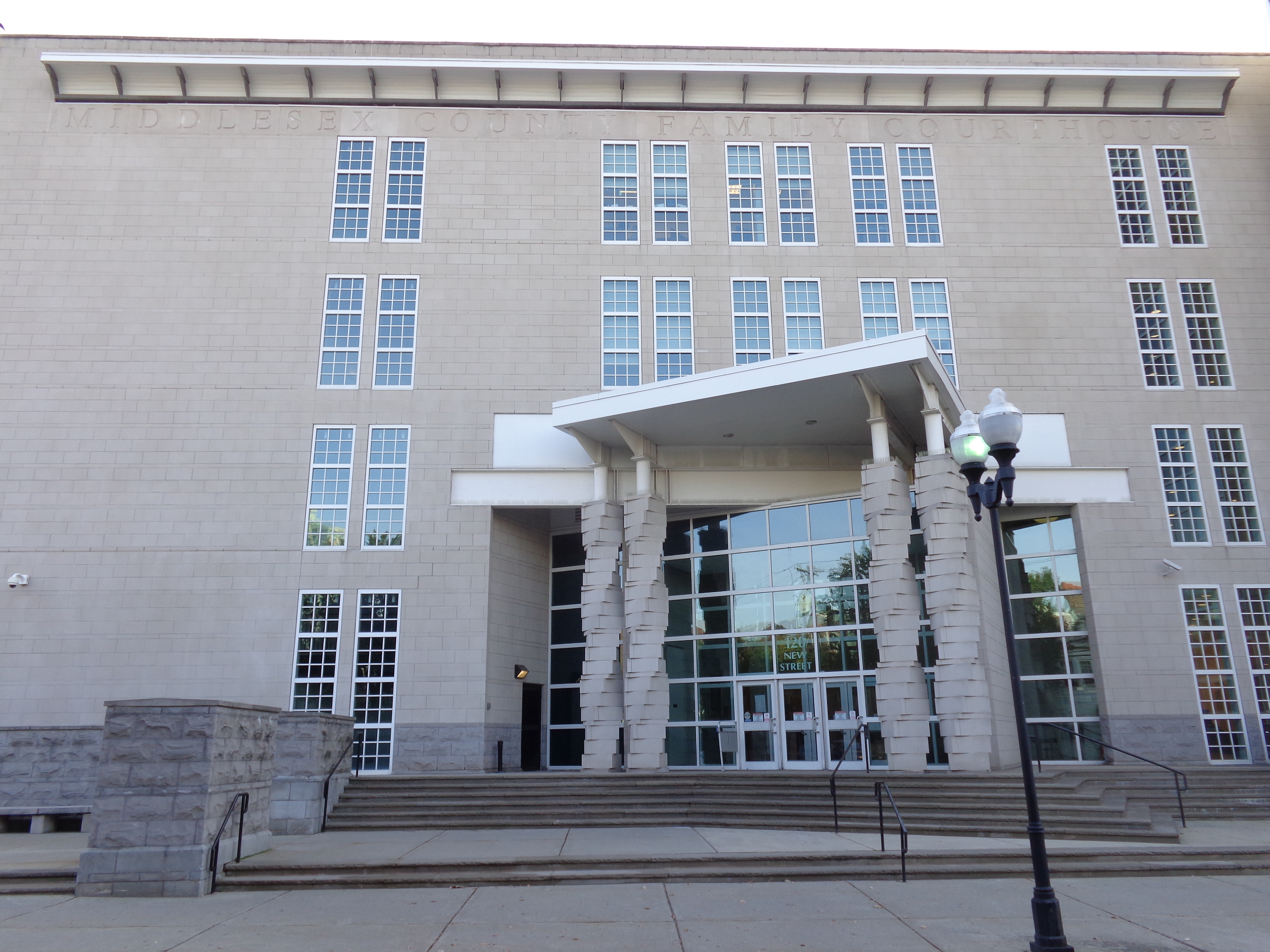 Middlesex County Family Couthouse New Brunswick NJ